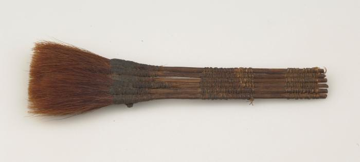 Brush made of howler monkey hair, used for spreading arrowheads with poison